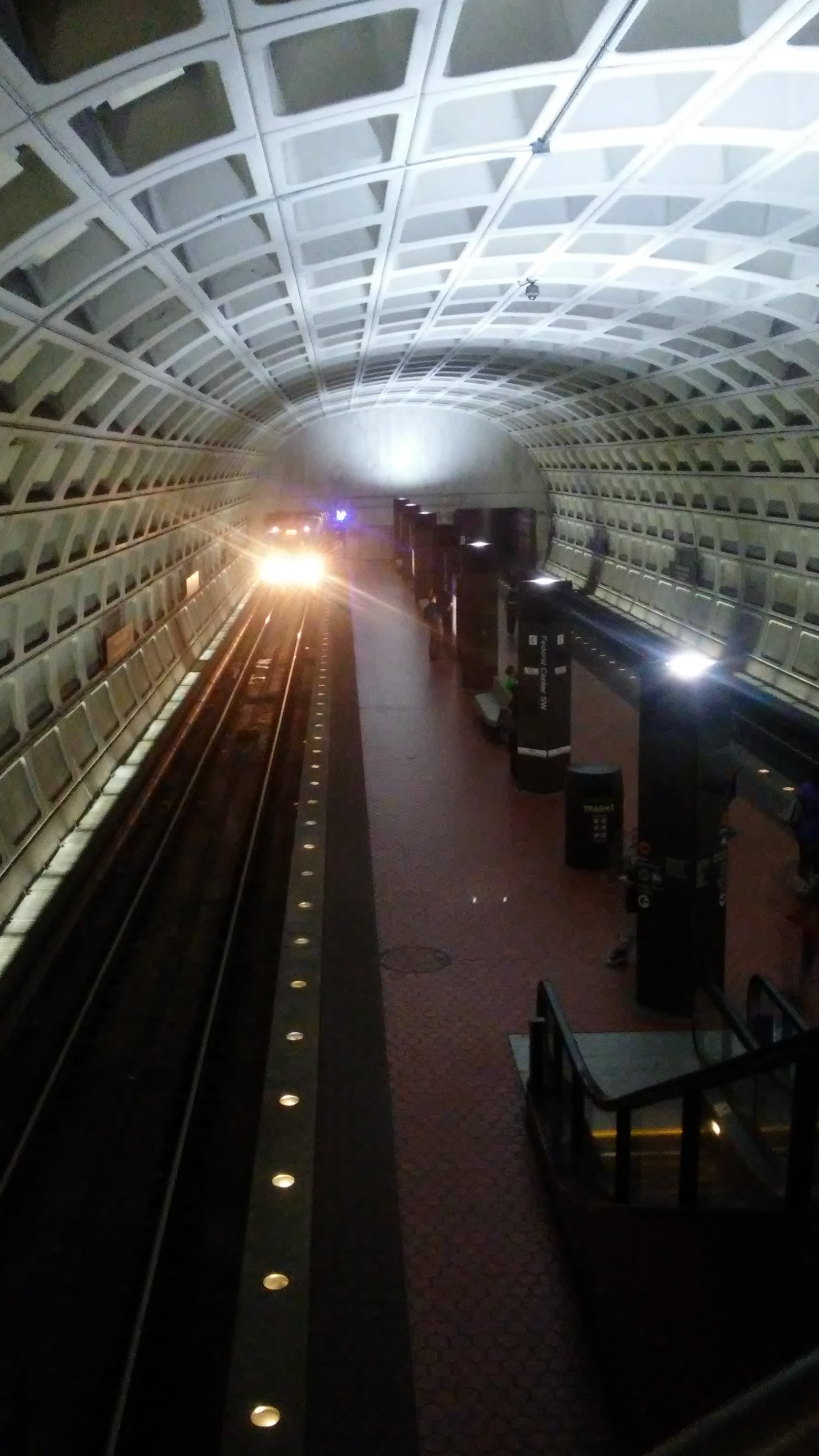 silver line train to largo arriving at Federal Center SW station January 2018